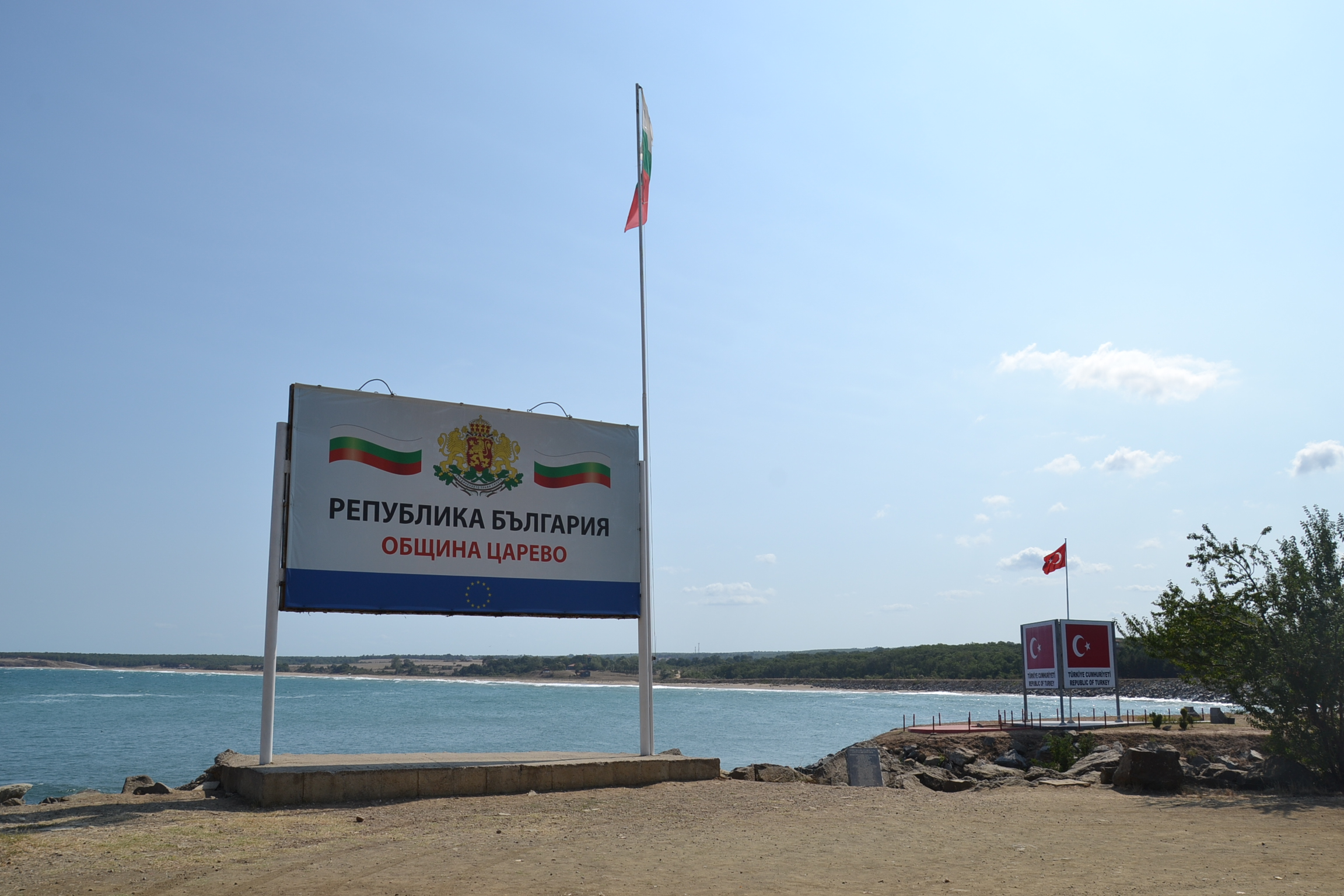 Rezovo, Bulgaria - border with Turkey